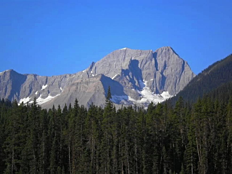 Mammoth Peak (3066 meters) in the Vermilion Range of Kootenay National Park in BC, Canada seen from Highway 93. aka Hewitt Peak